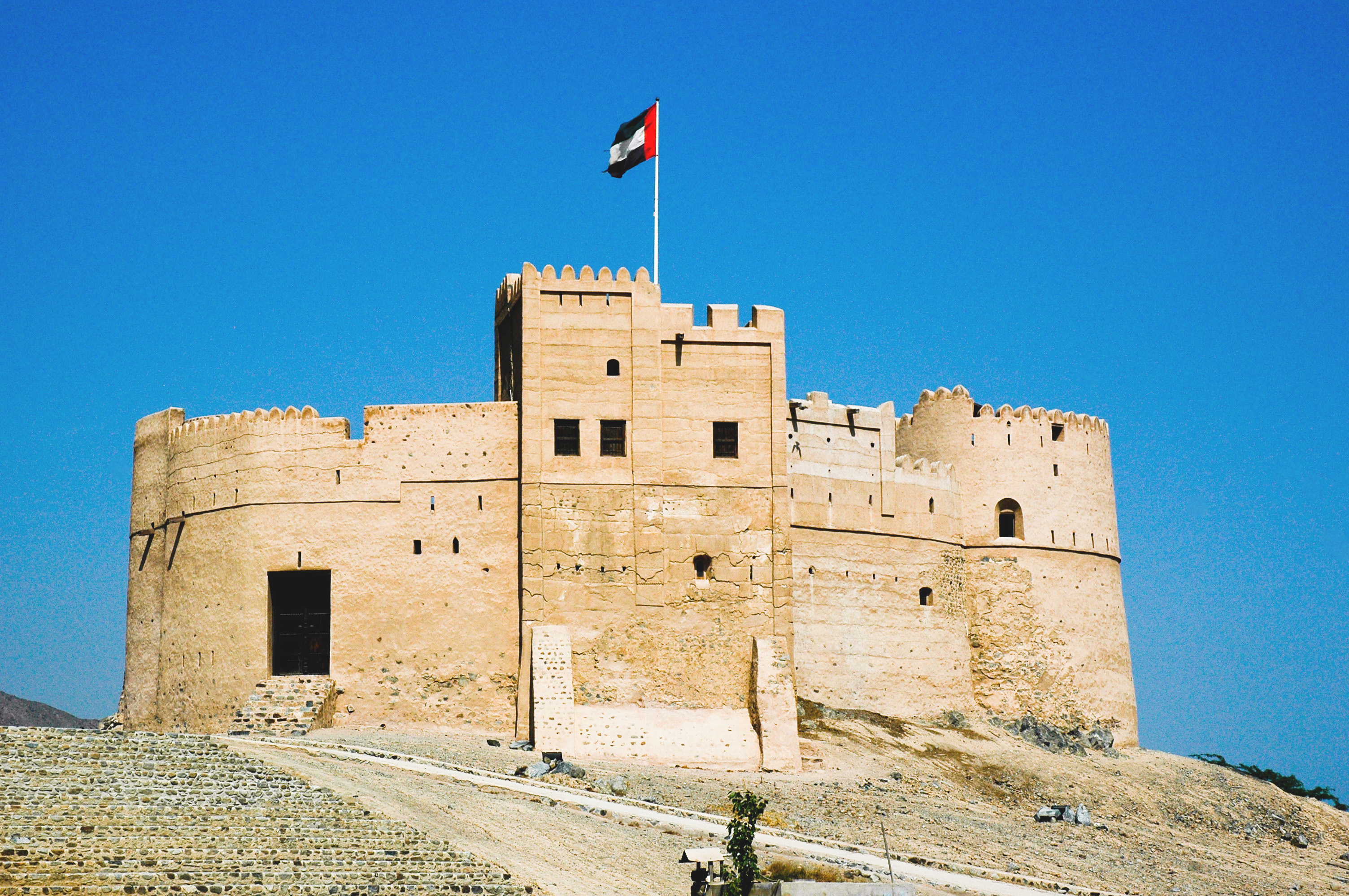 Fujairah Fort (not Al Bithnah Fort), Fujairah City (Emirate of Fujairah, UAE)